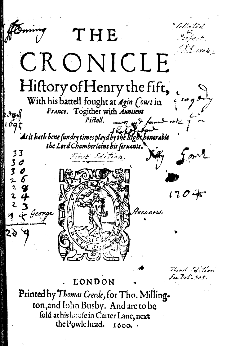 Title page of the 1600 edition of Shakespeare's Henry V, often called the 'Bad Quarto'. The handwritten annotations are by the book's various owners across the centuries.